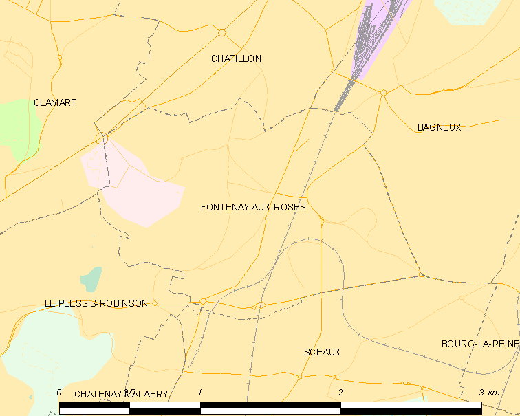 Map of French municipality Fontenay-aux-Roses